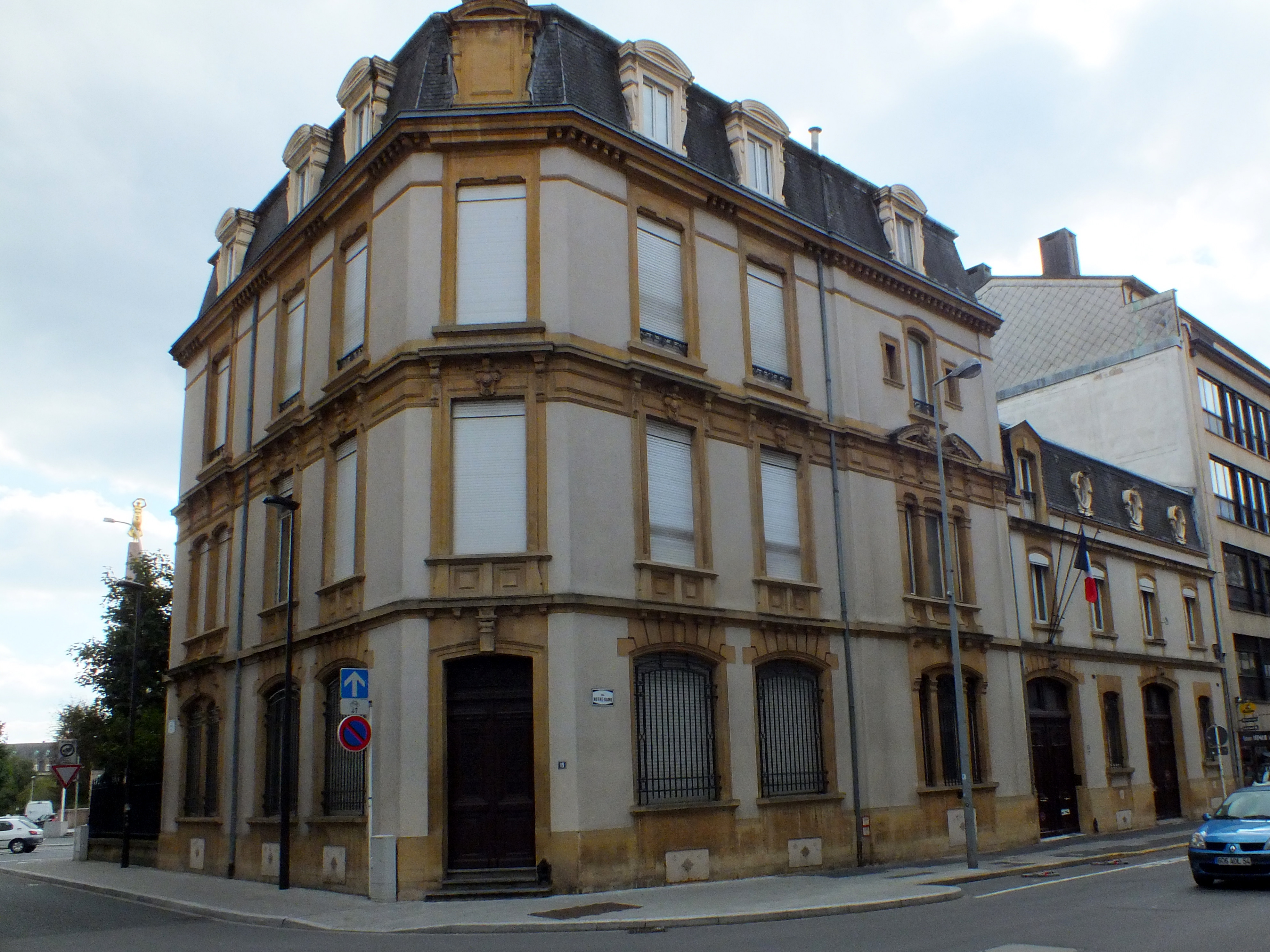 Residence of the Ambassador of France, 19, rue Notre-Dame (corner rue Chimay), in Ville de Luxembourg. Embassy and consular services are situated on 8b, boulevard Joseph II, in what was earlier the Embassy of Bulgaria.